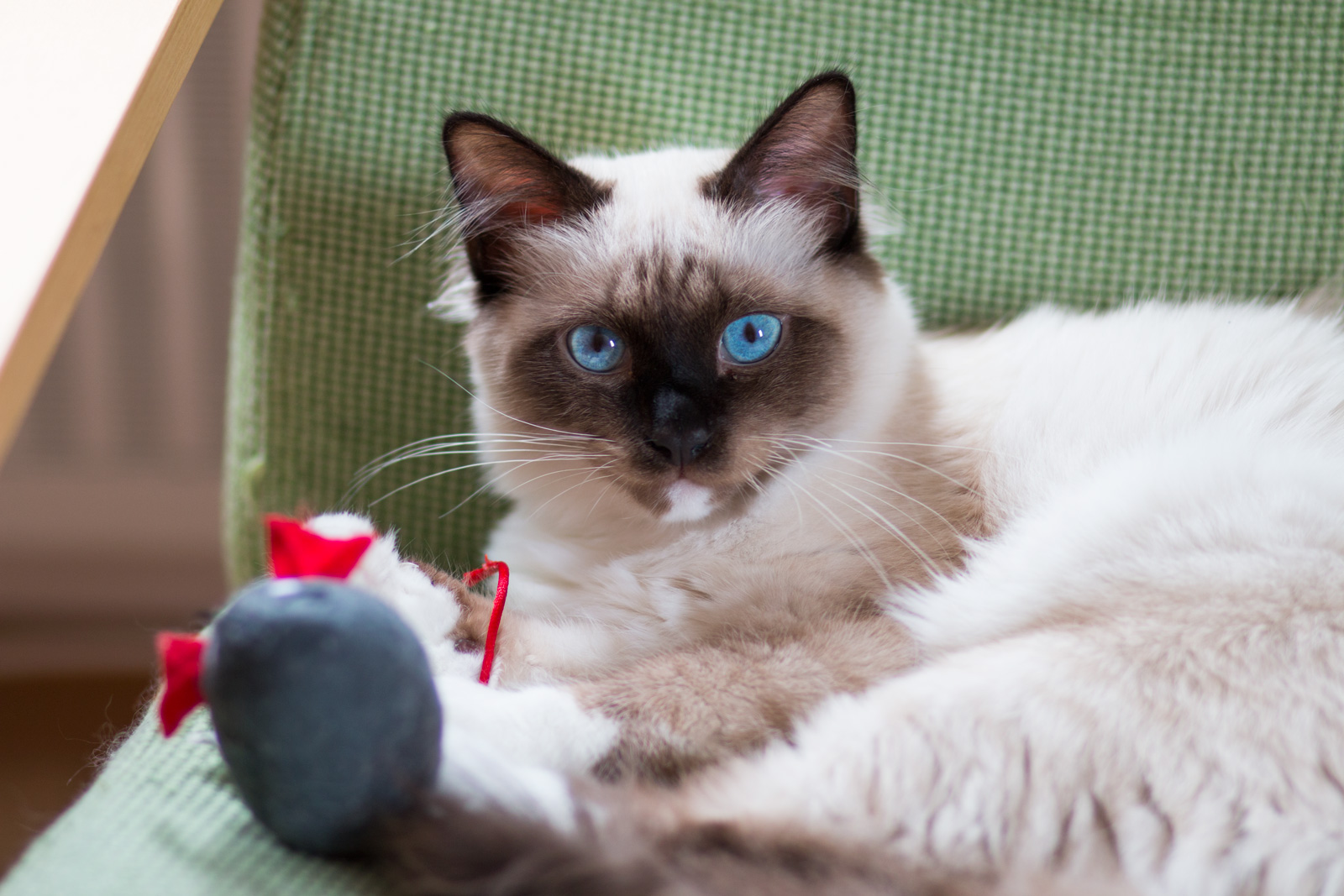 Seal point Birman cat called "Heiliger Bimbam".